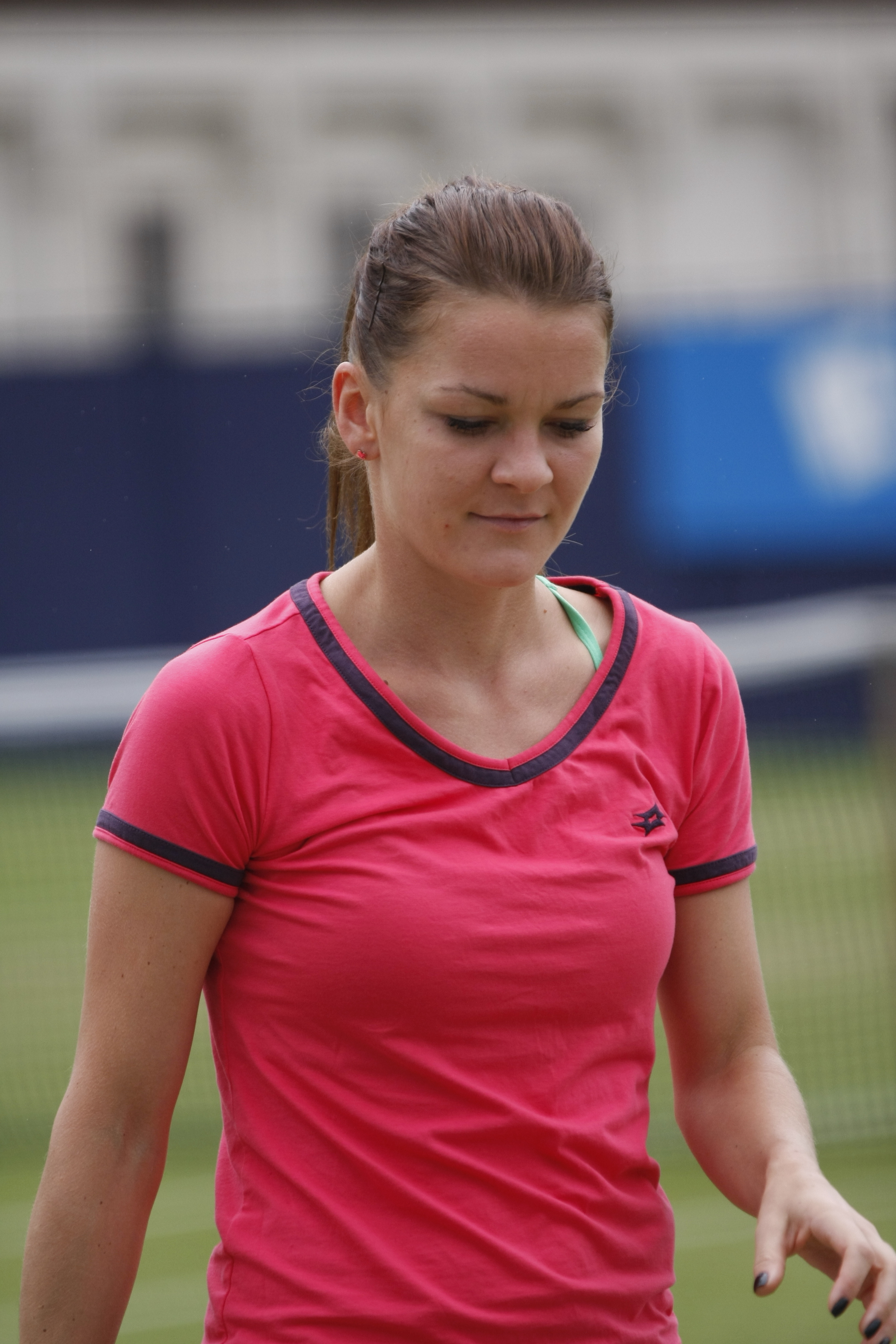 Radwanska at the Aegon International Tennis, June 2014